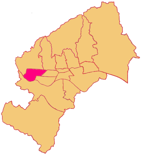 Map of Stenjevec District in ZagrebHrvatski: Gradska četvrt Stenjevec